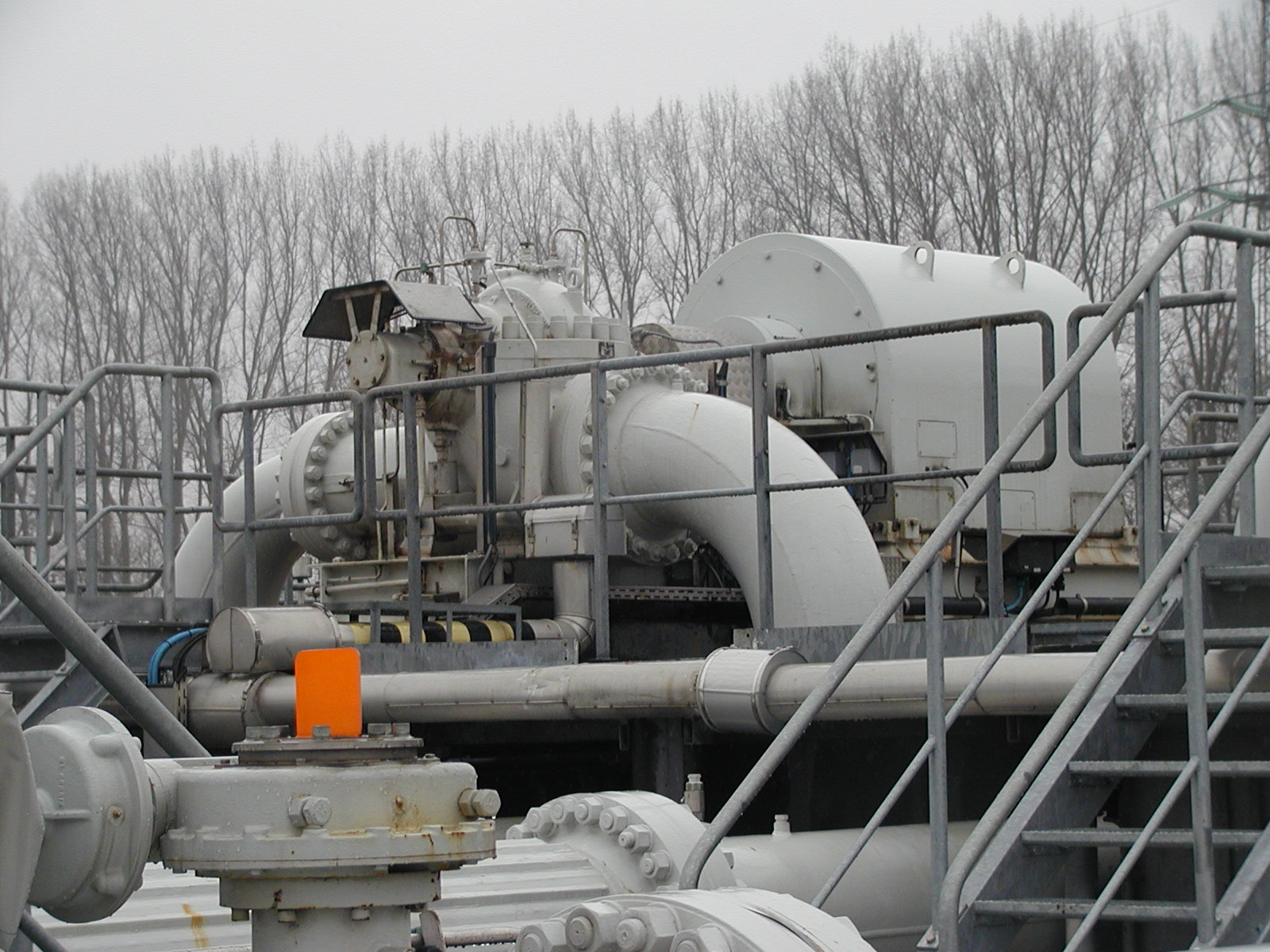 Pump at the start of a 28" crude oil pipeline, centrifugal pump and motor